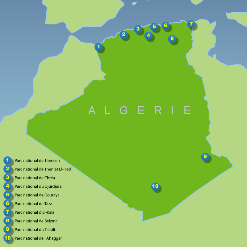 Map of National parks of Algeria, National parks in Algeria. Author: M.GASMI.